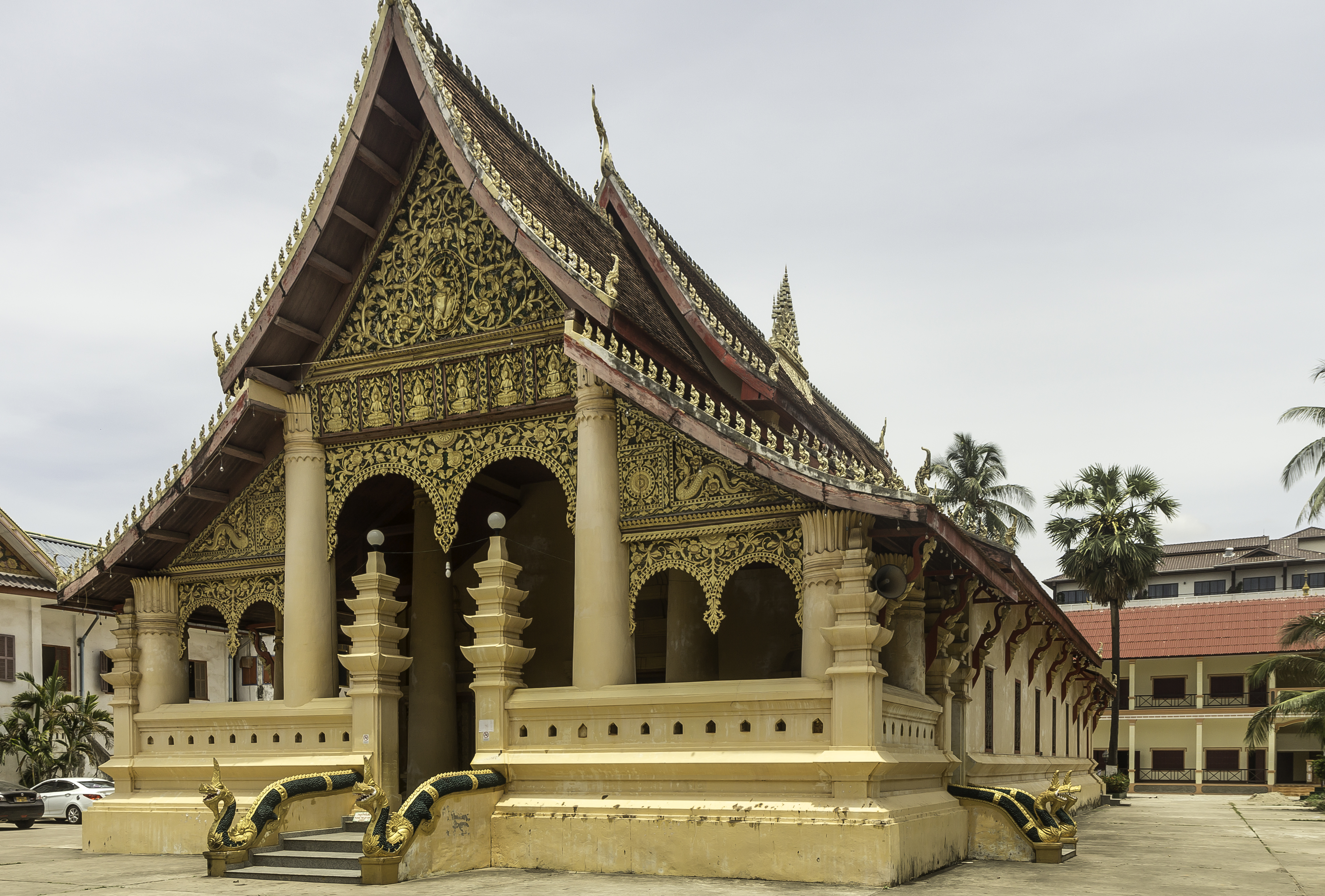 Prayers and meeting room at Wat Ong Teu, Vientiane, Laos